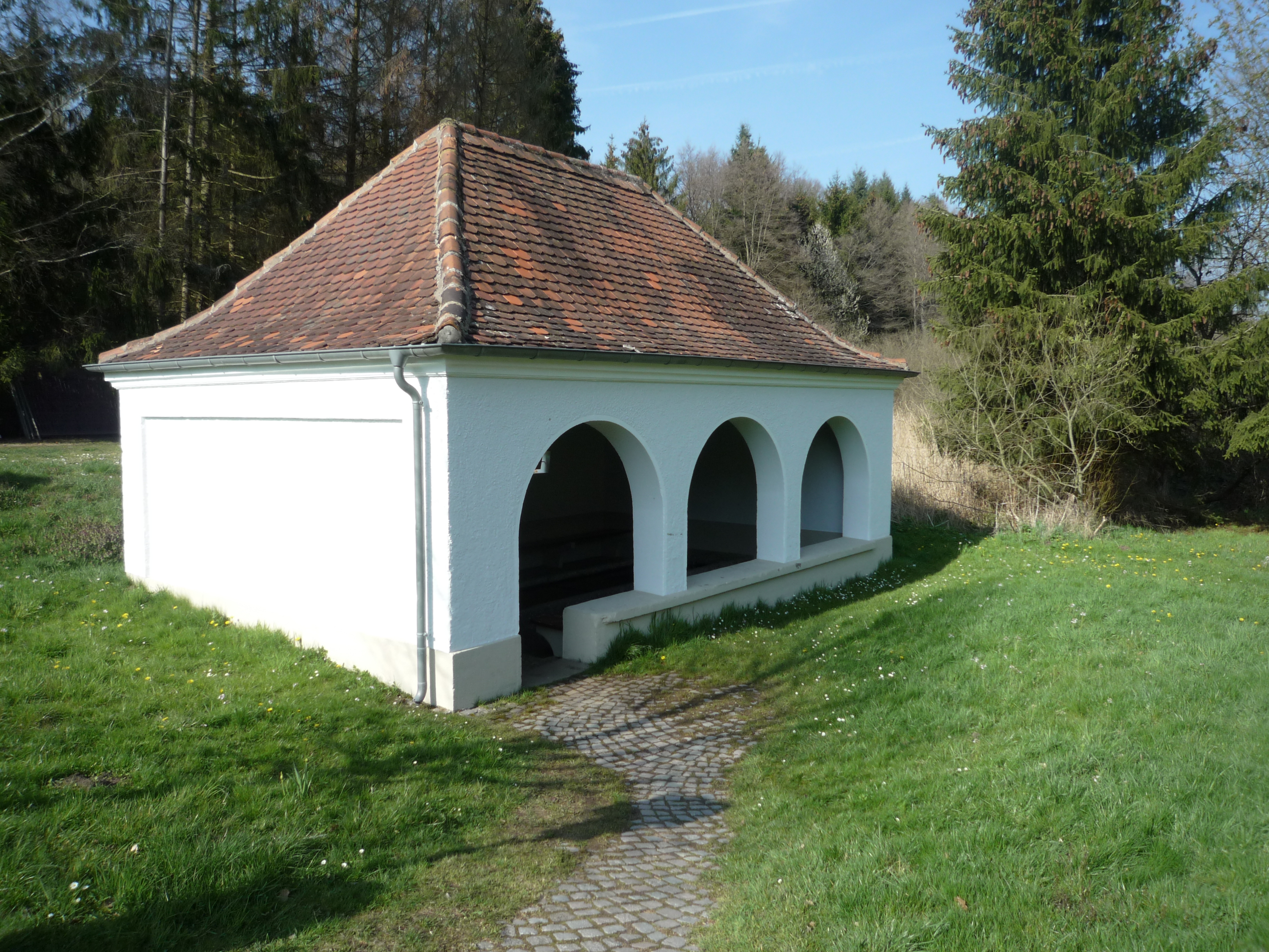 Washhouse at Oberwürzbach (St. Ingbert, Saarland, Germany)